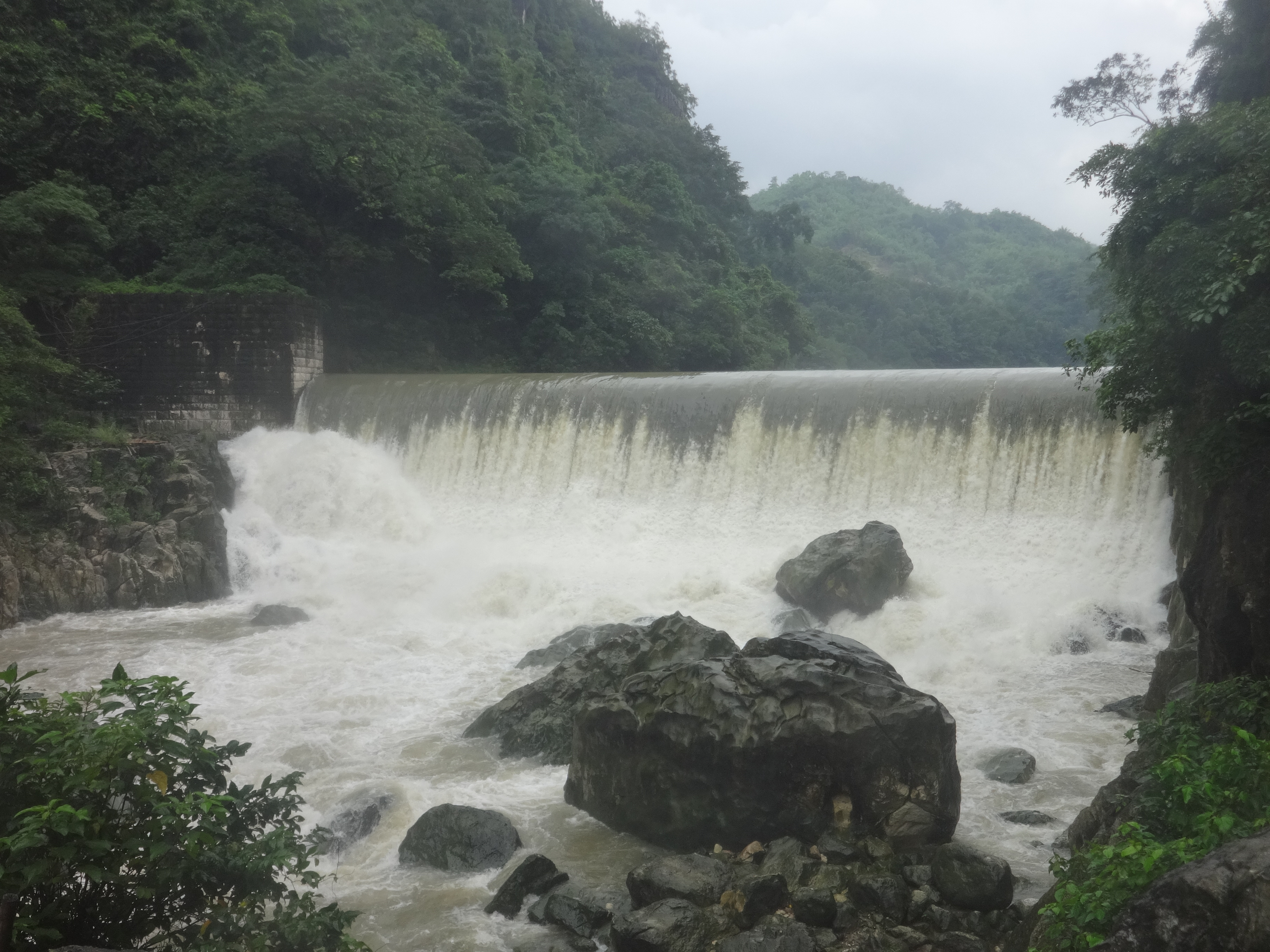 Wawa Dam in Rodriguez, Rizal